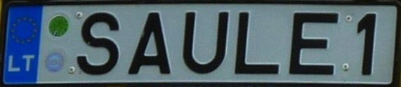 Personalized license plate from Lithuania